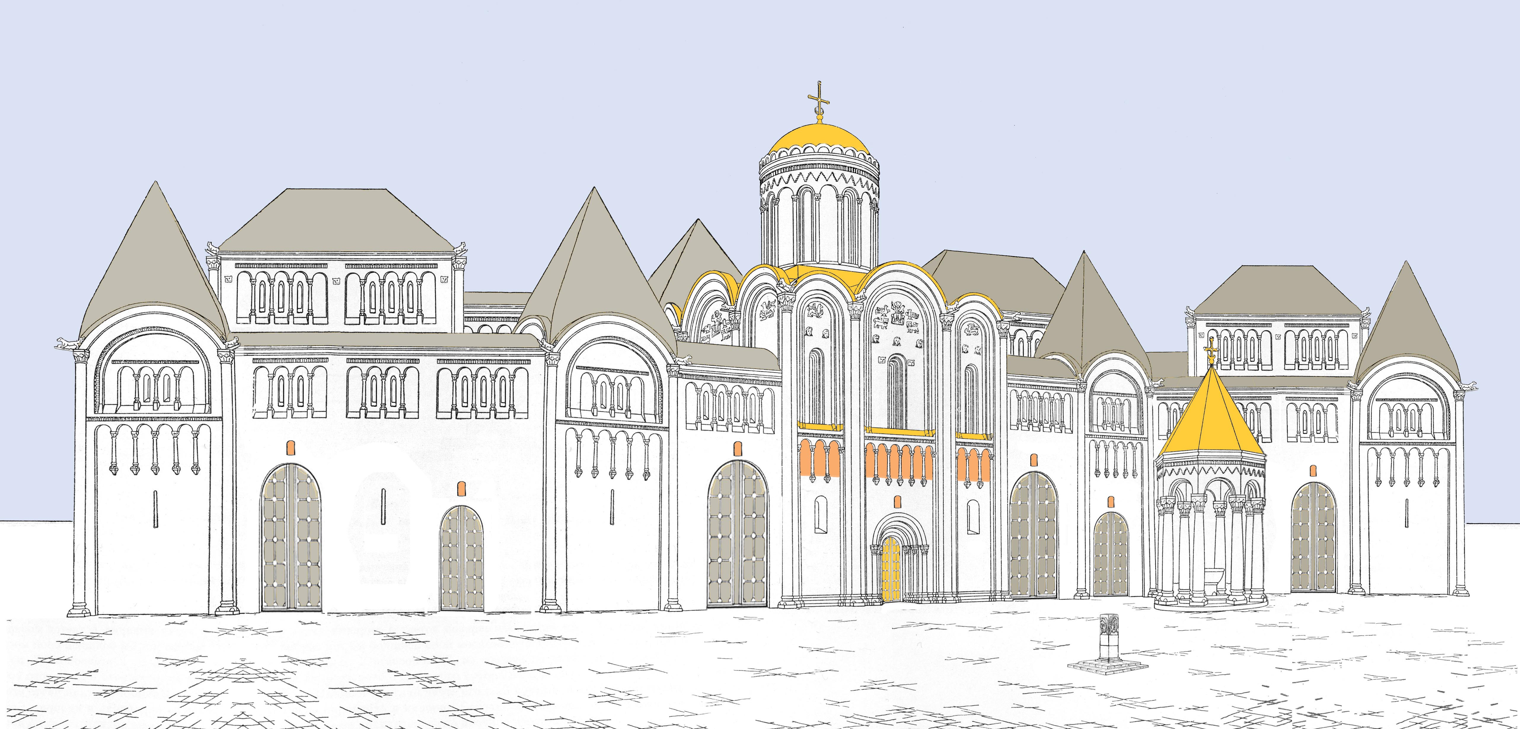 Dr. Sergey Zagraevsky permitted to use in Wikipedia his scientific works on the conditions of free licenses, permission # 2009062810038434.